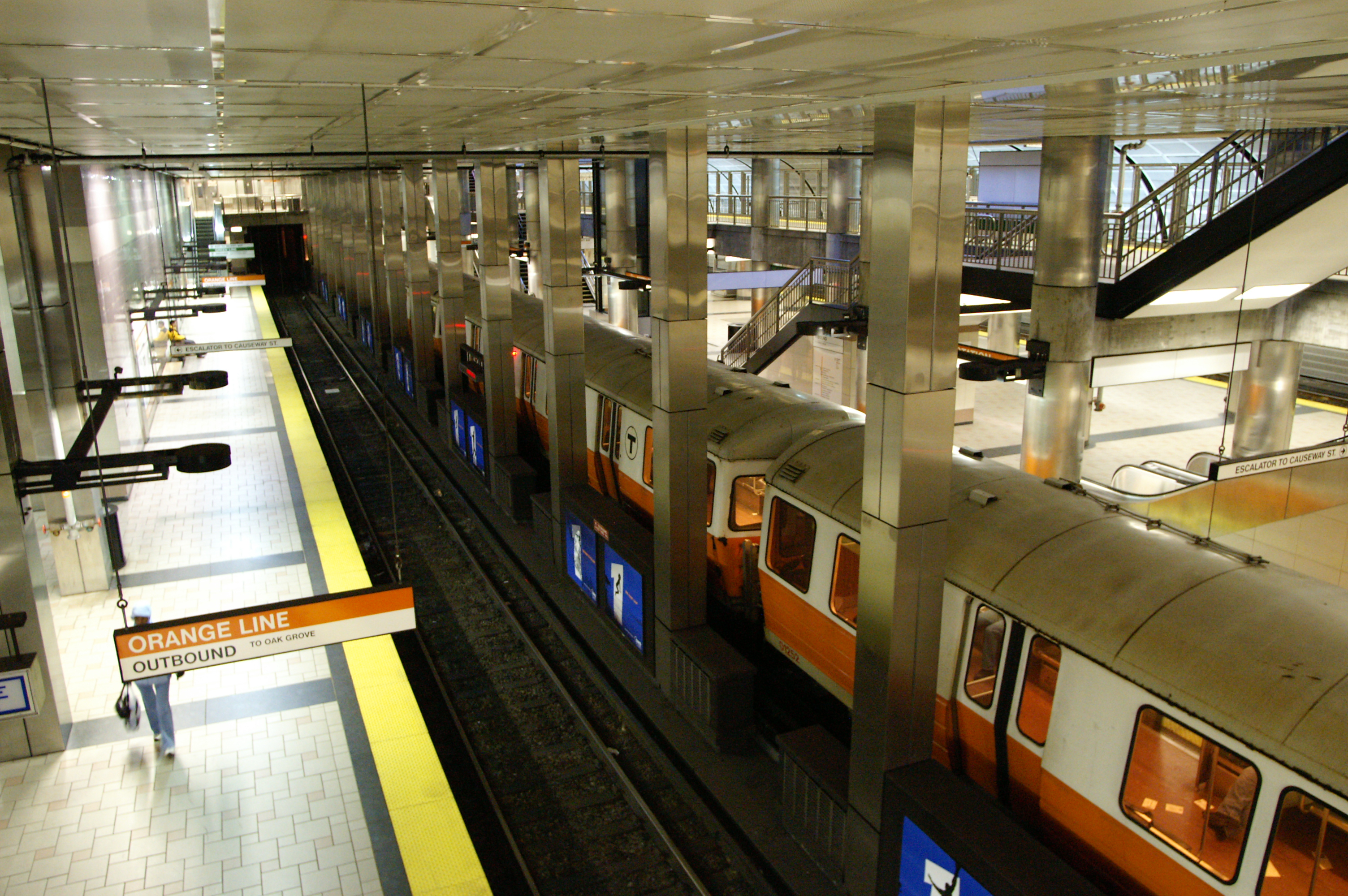 A southbound Orange Line train at North Station in February 2006